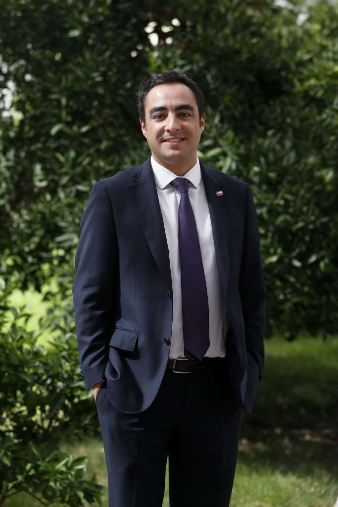 Photo of Álvaro Pillado Irribarra, Undersecretary of National Assets in 2019